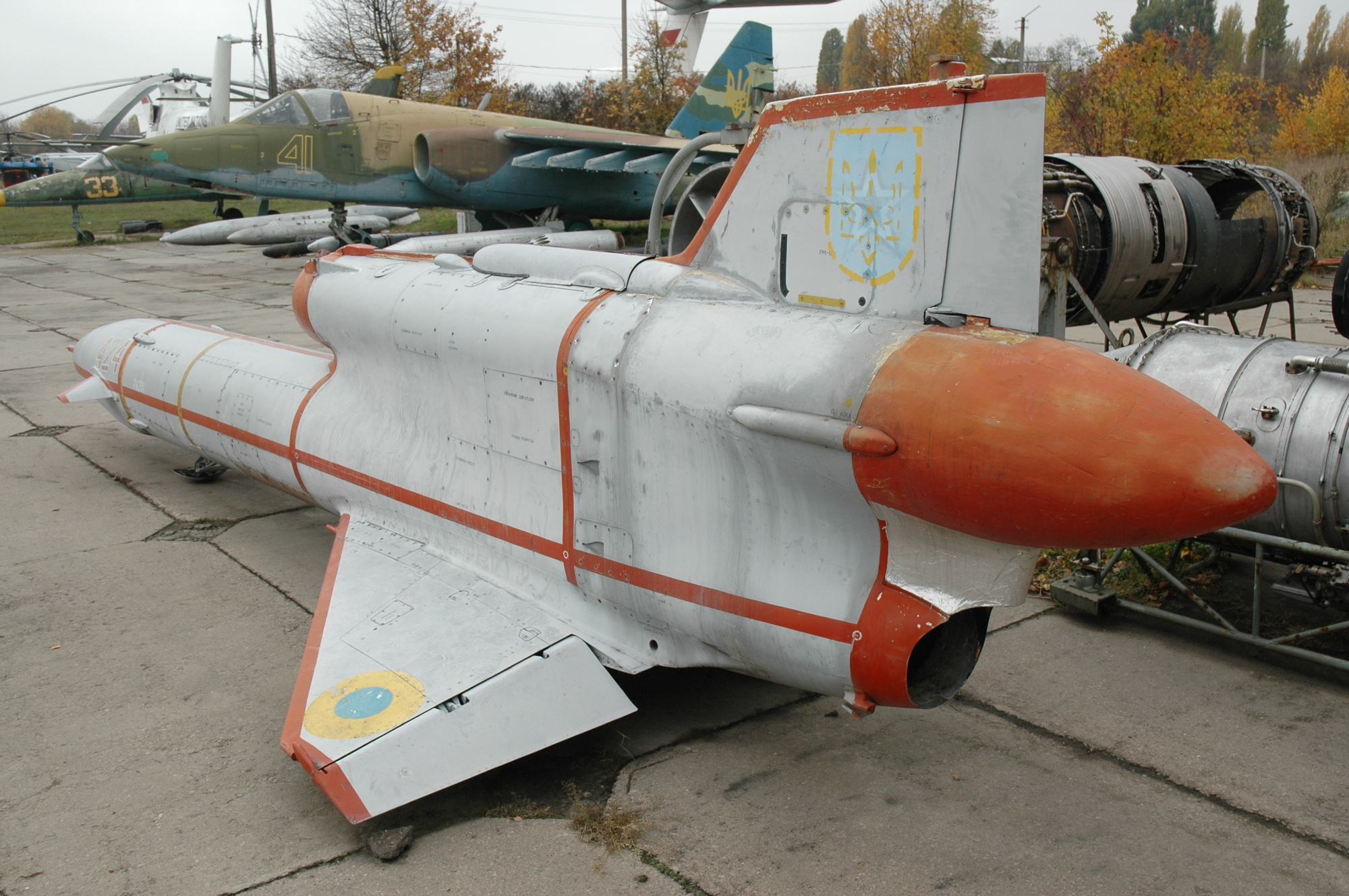 Tu-143 Soviet reconnaissance drone (Kyiv, Ukraine)